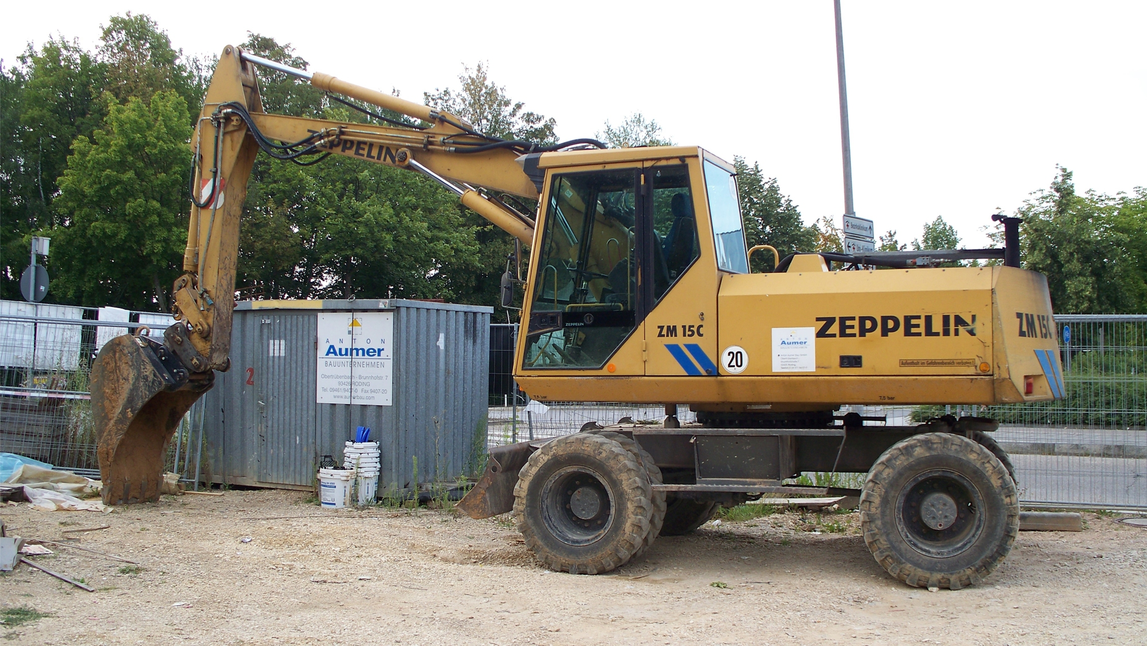 A Zeppelin excavator in Germany.